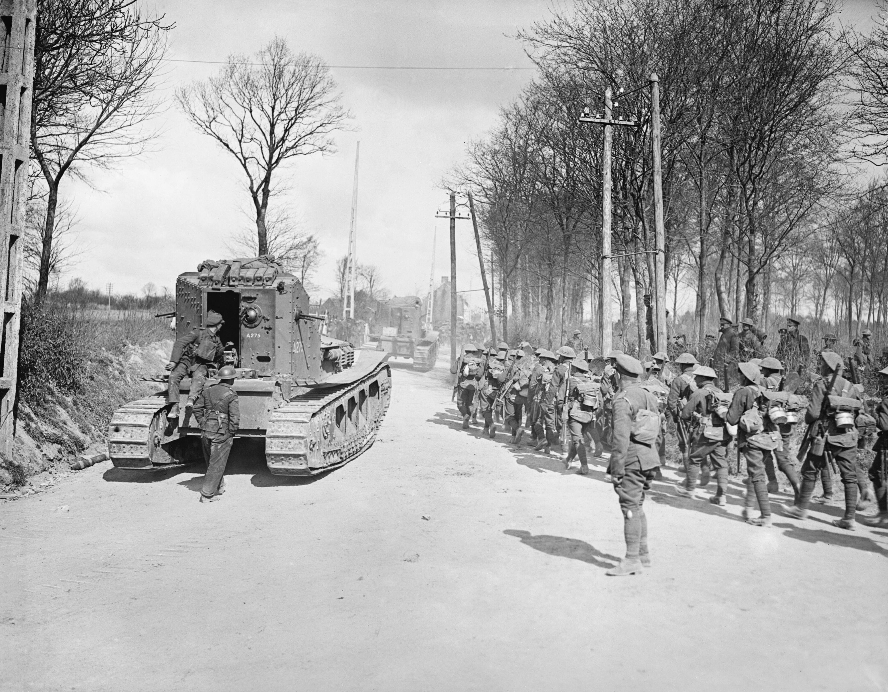 The German Spring Offensive, March-july 1918 Whippet Tanks of the 3rd Battalion at Maillet-Mailly,some of which had been in action earlier in the day and were the first Whippet Tanks to be used, 26th March 1918. The advancing infantry are of the New Zealand Division which later in the day filled the gap in the line.